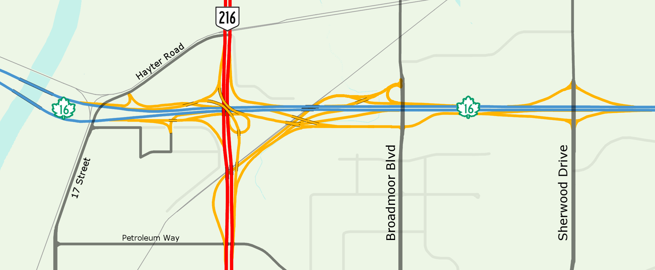 OpenStreetMap of Anthony Henday Drive and Yellowhead Trail in Strathcona County, Alberta.